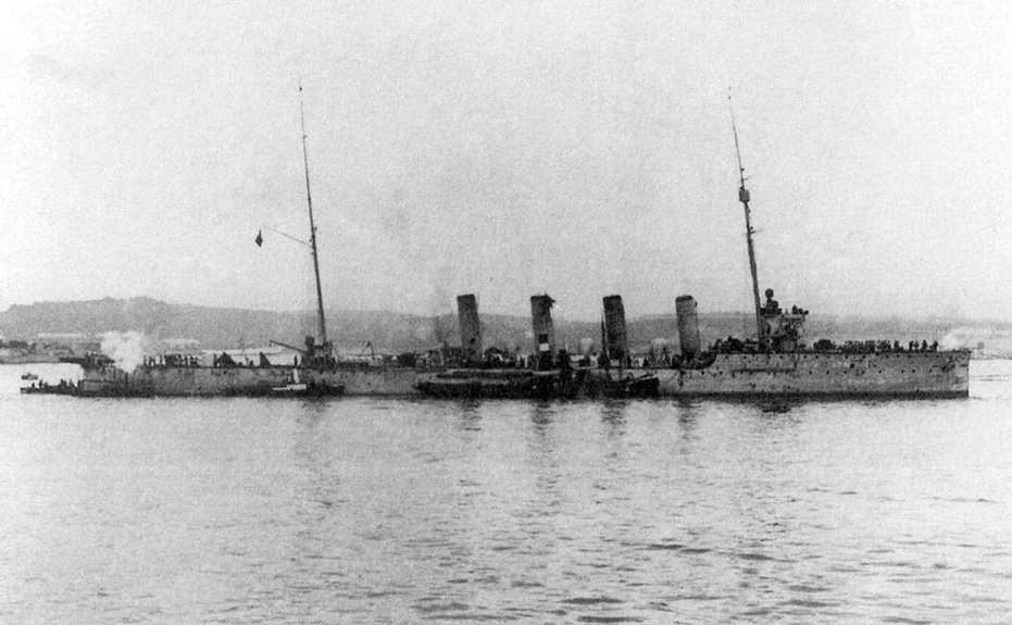 Austro-Hungarian Fast Cruiser SMS "Helgoland" (1914)